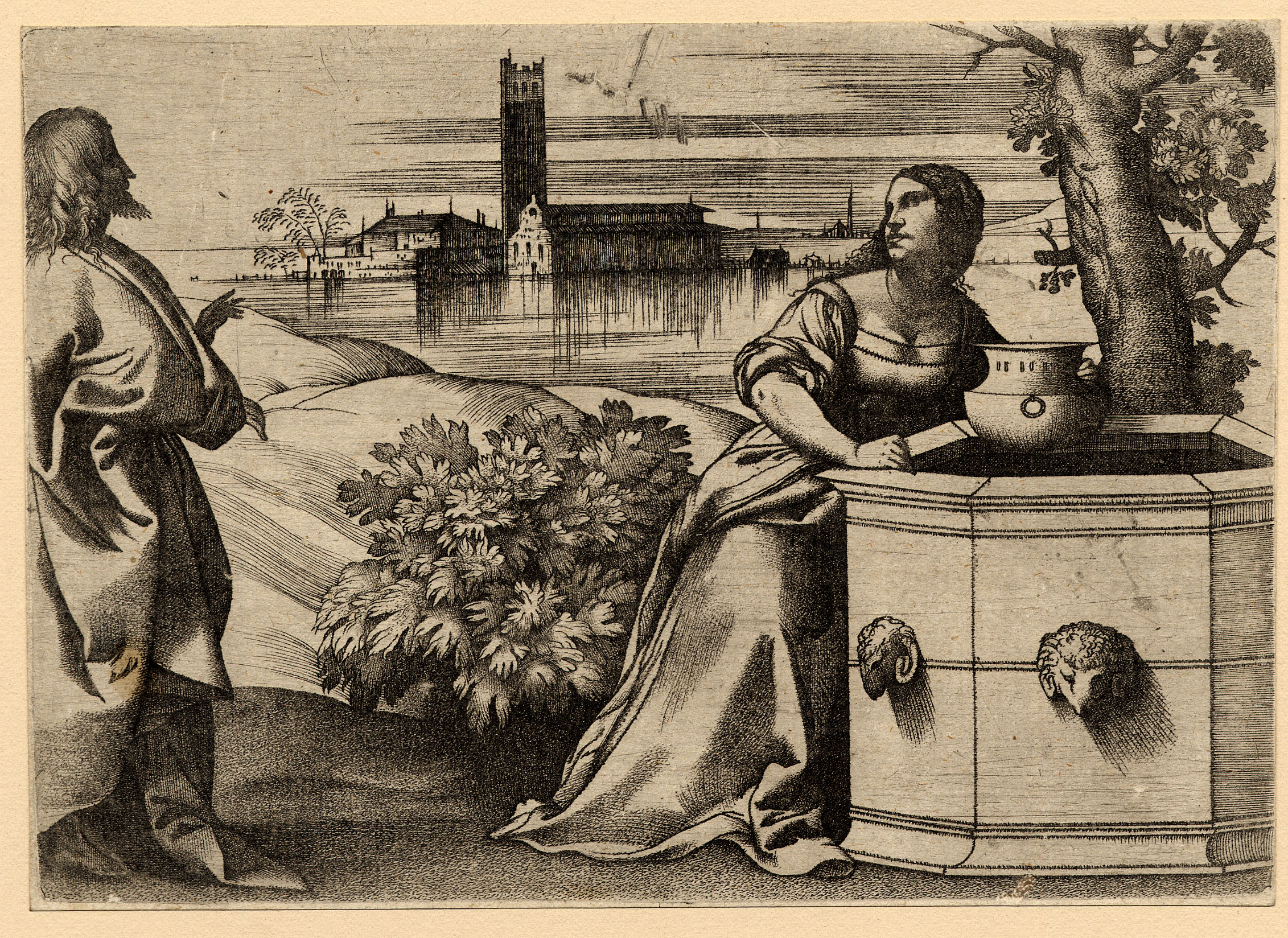 Giulio Campagnola c. 1482 – c. 1515, engraving in the British Museum